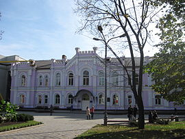 The First building Ukrainian academy of banking of the National bank of Ukraine